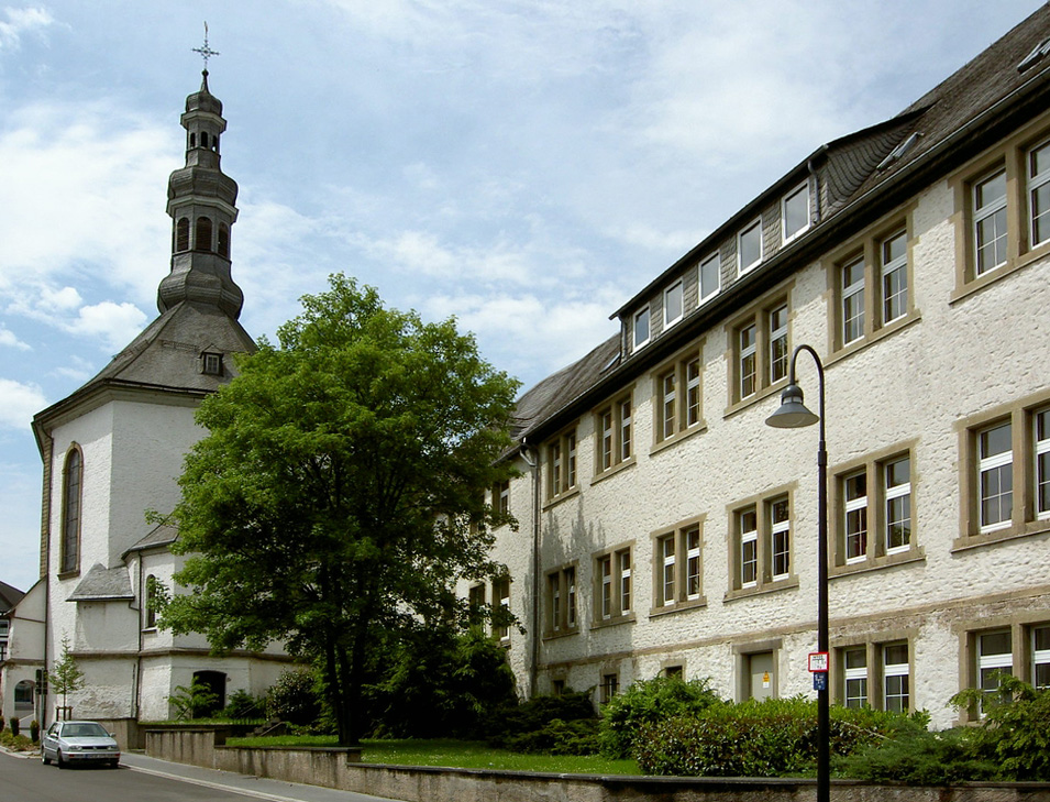 Old Building of the Gymnasium Petrinum